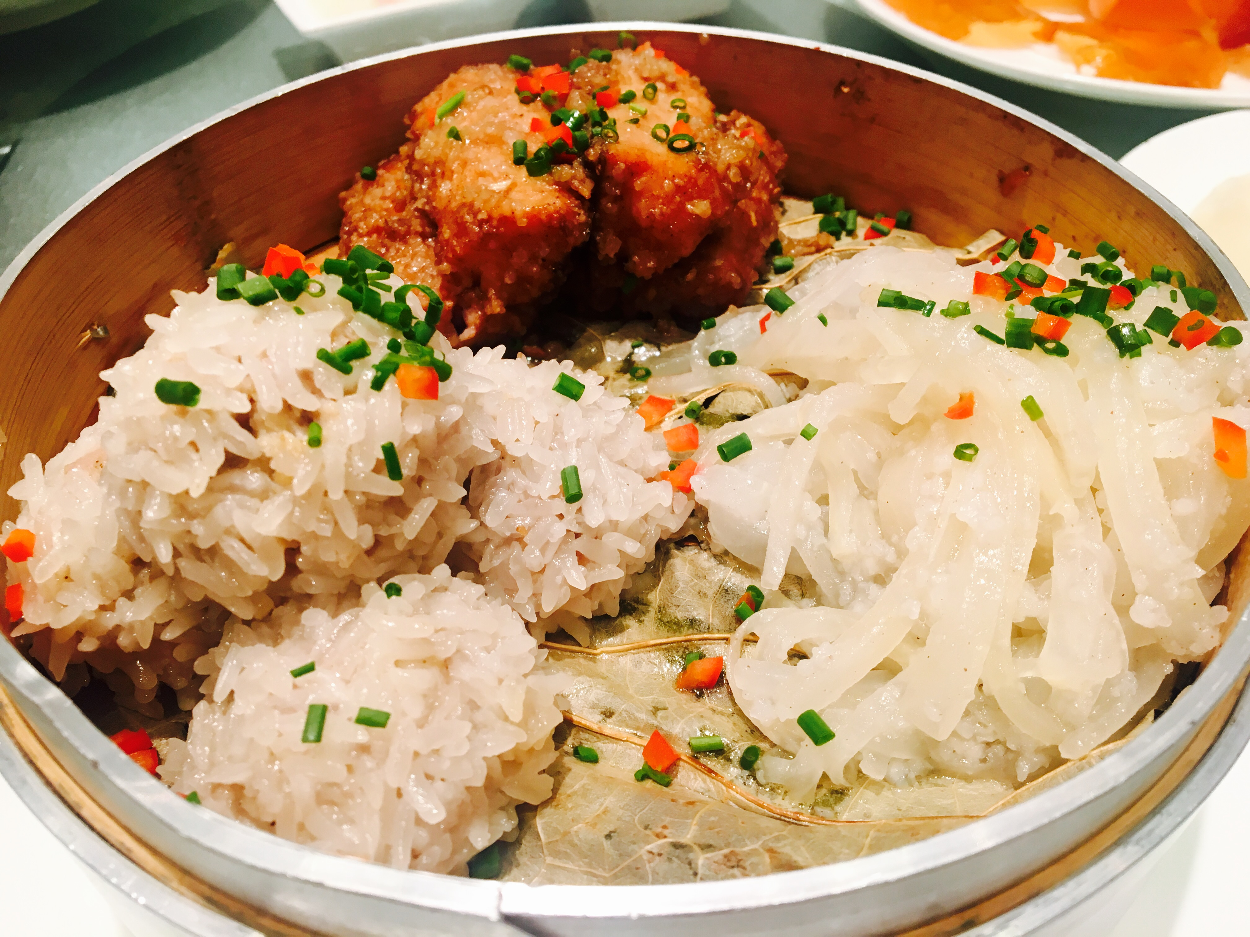 The three steaming dishes of Mianyang